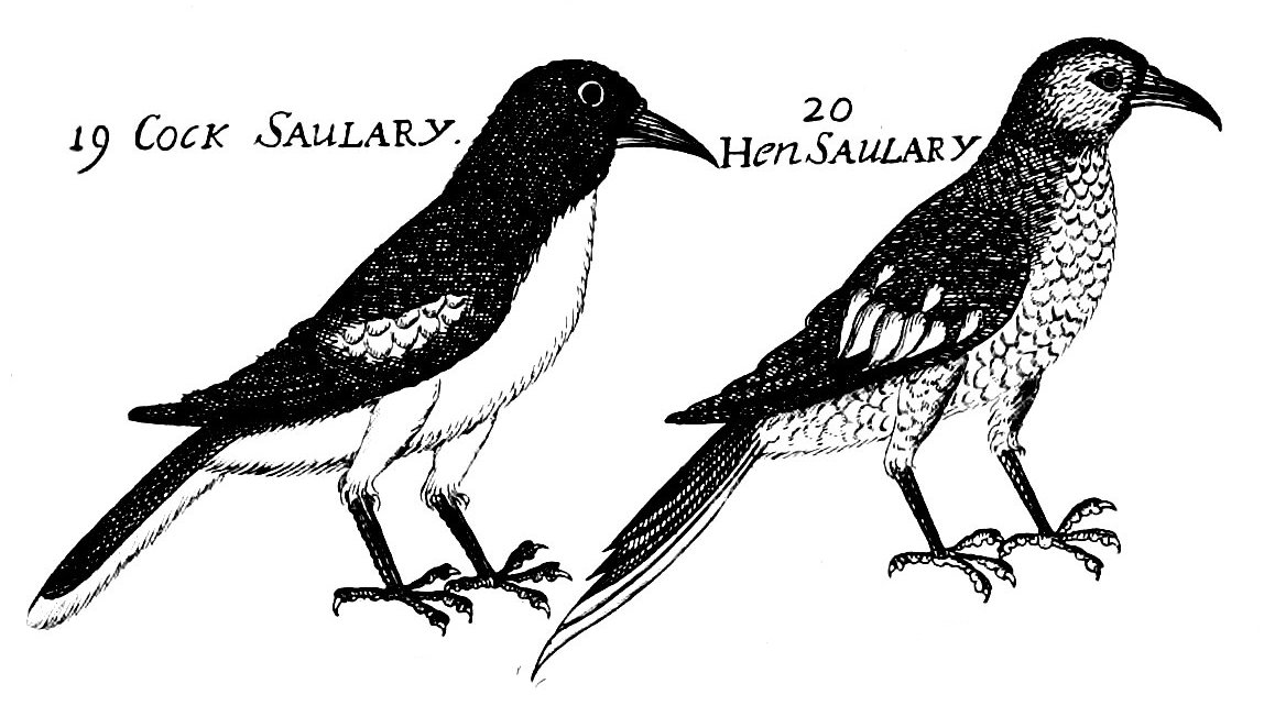 Copsychus saularis illustration from John Ray